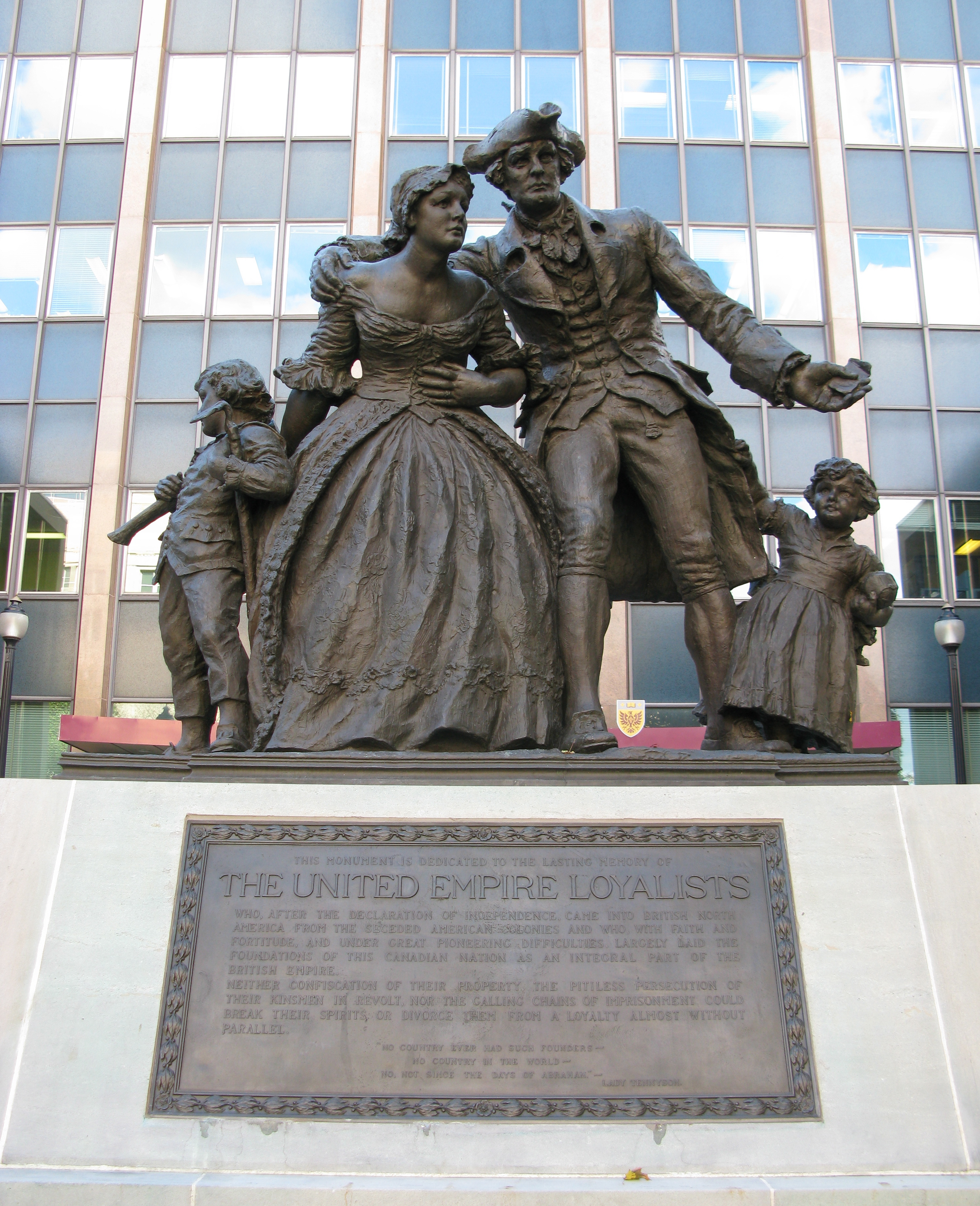 United Empire Loyalist statue and plaque in front of 50 Main Street East, Hamilton, Ontario